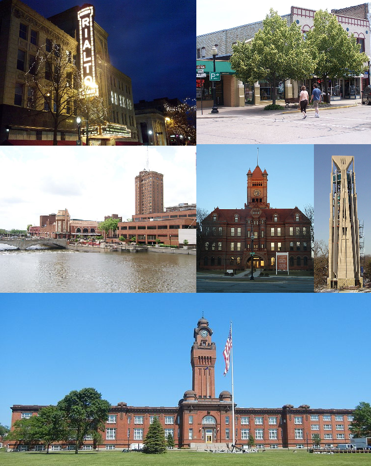 This is a series of six photos found on Wikipedia of cities in the collar counties for use in an article about the collar counties.